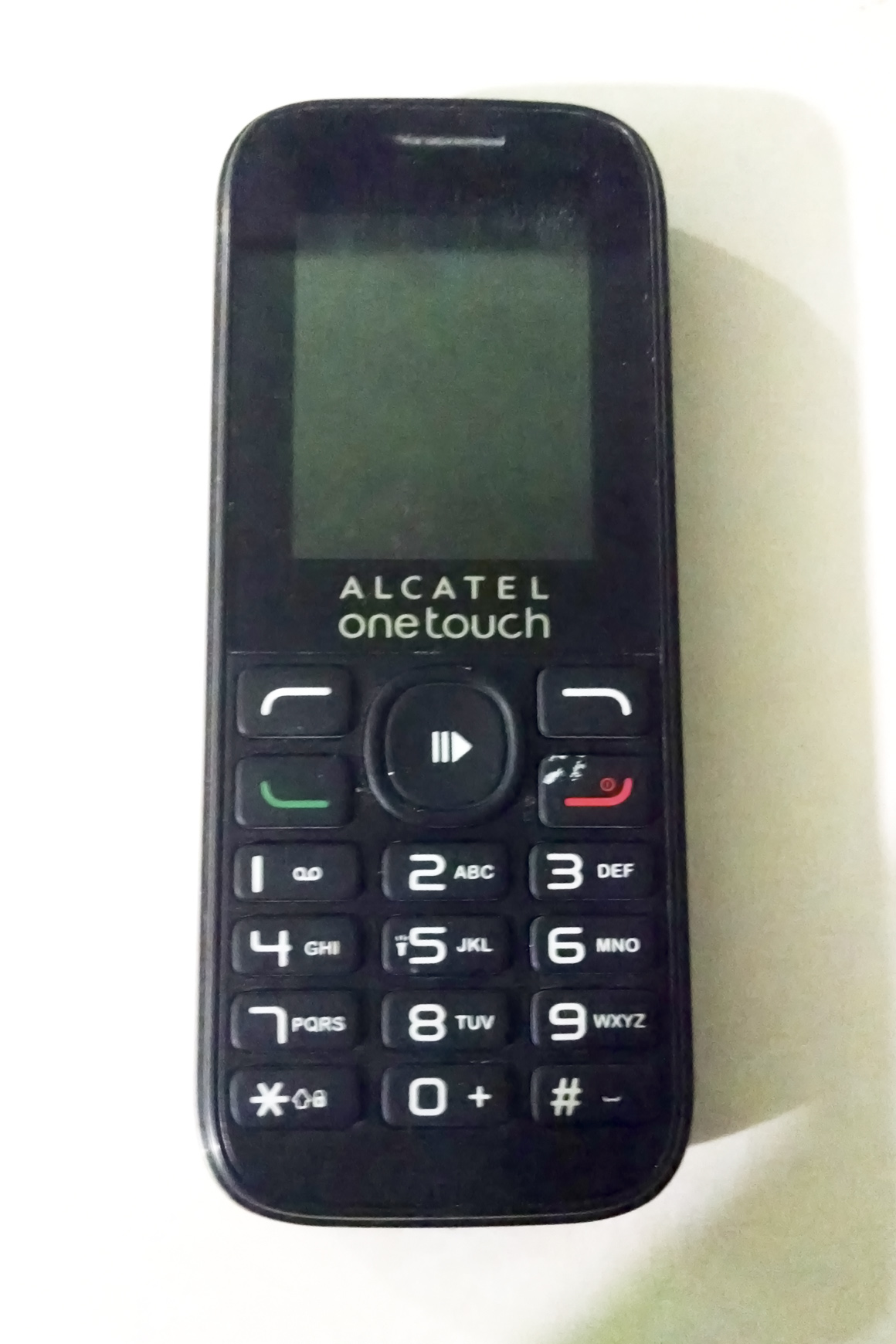 Front view of Alcatel1050A